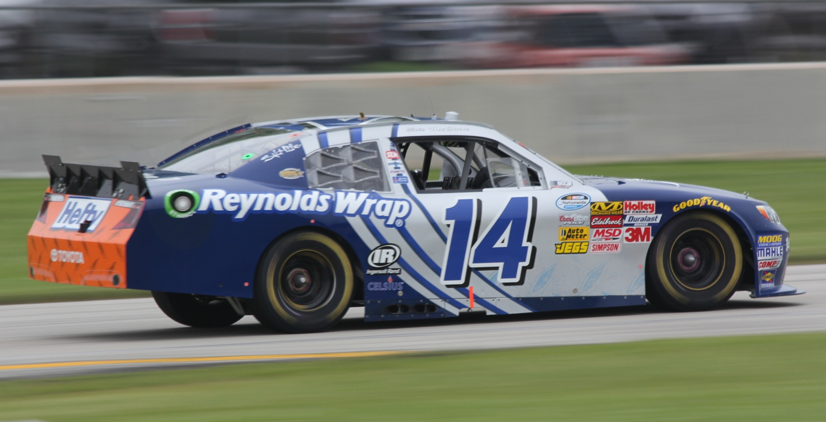 The passenger side of Eric McClure during the 2014 Gardner Denver 200 at Road America. Taken racing in turn 13.